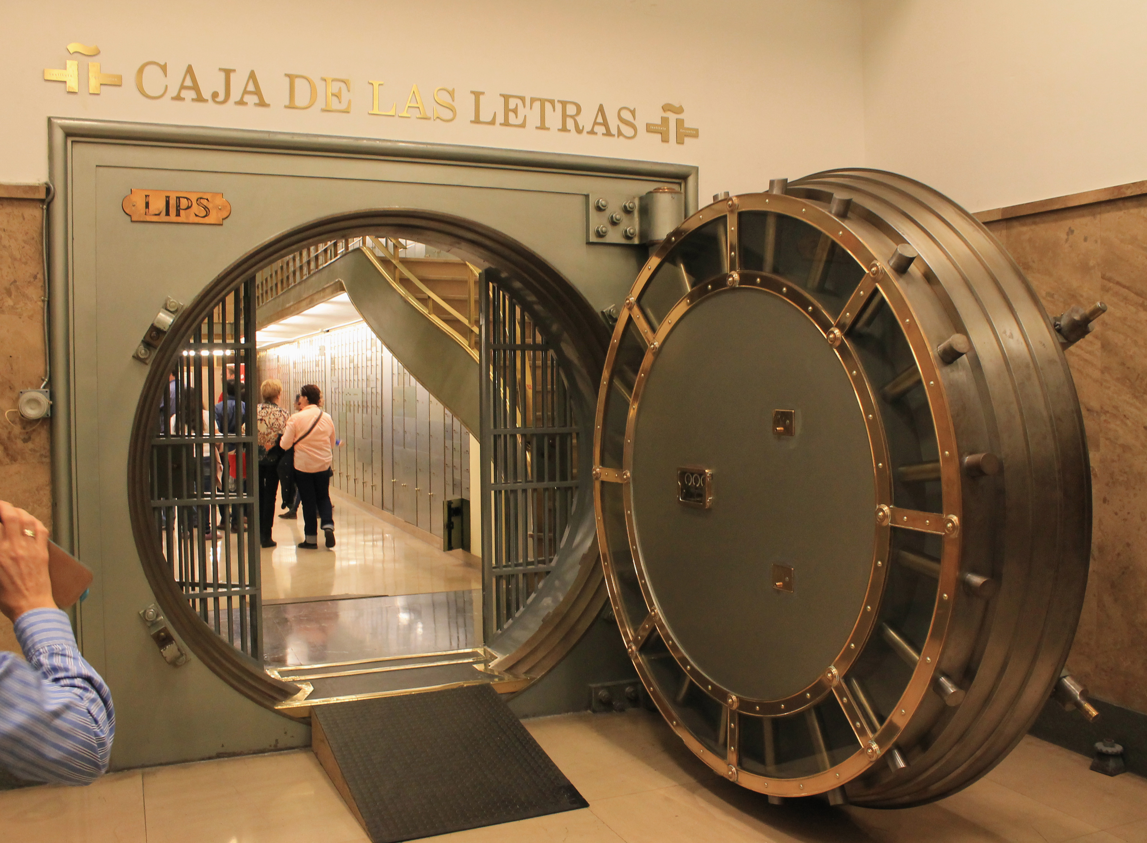 The so-named Caja de las Letras ("Letters' Vault") at the Cervantes Institute headquarters in Madrid (Spain). It's the bank vault of the former Río de la Plata Bank building.